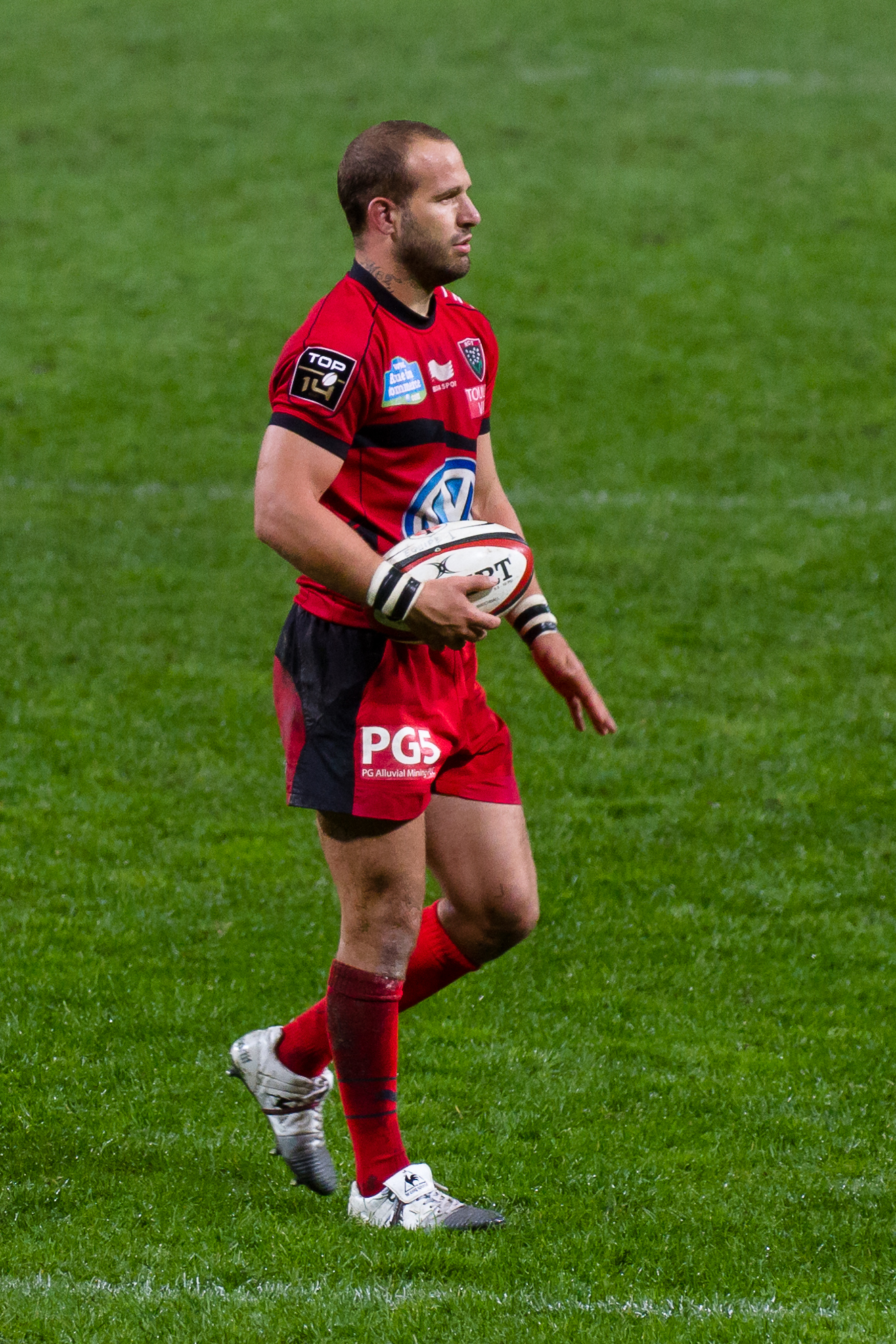 Frédéric Michalak wearing number 10 during the match between Stade toulousain and RC Toulon on September 29th, 2012 (Round 7 of Top14).